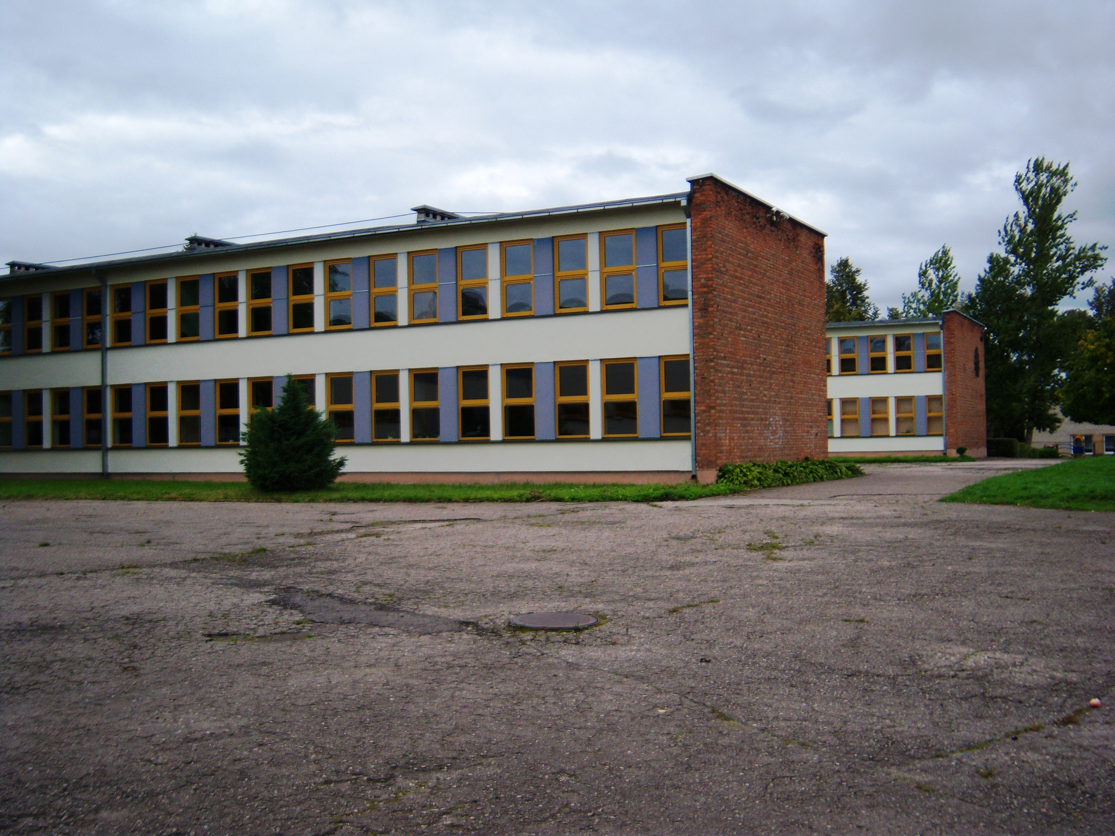 Nemunas Secondary School, Kaunas, Lithuania